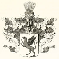 Coat of Arms of Chevkin family